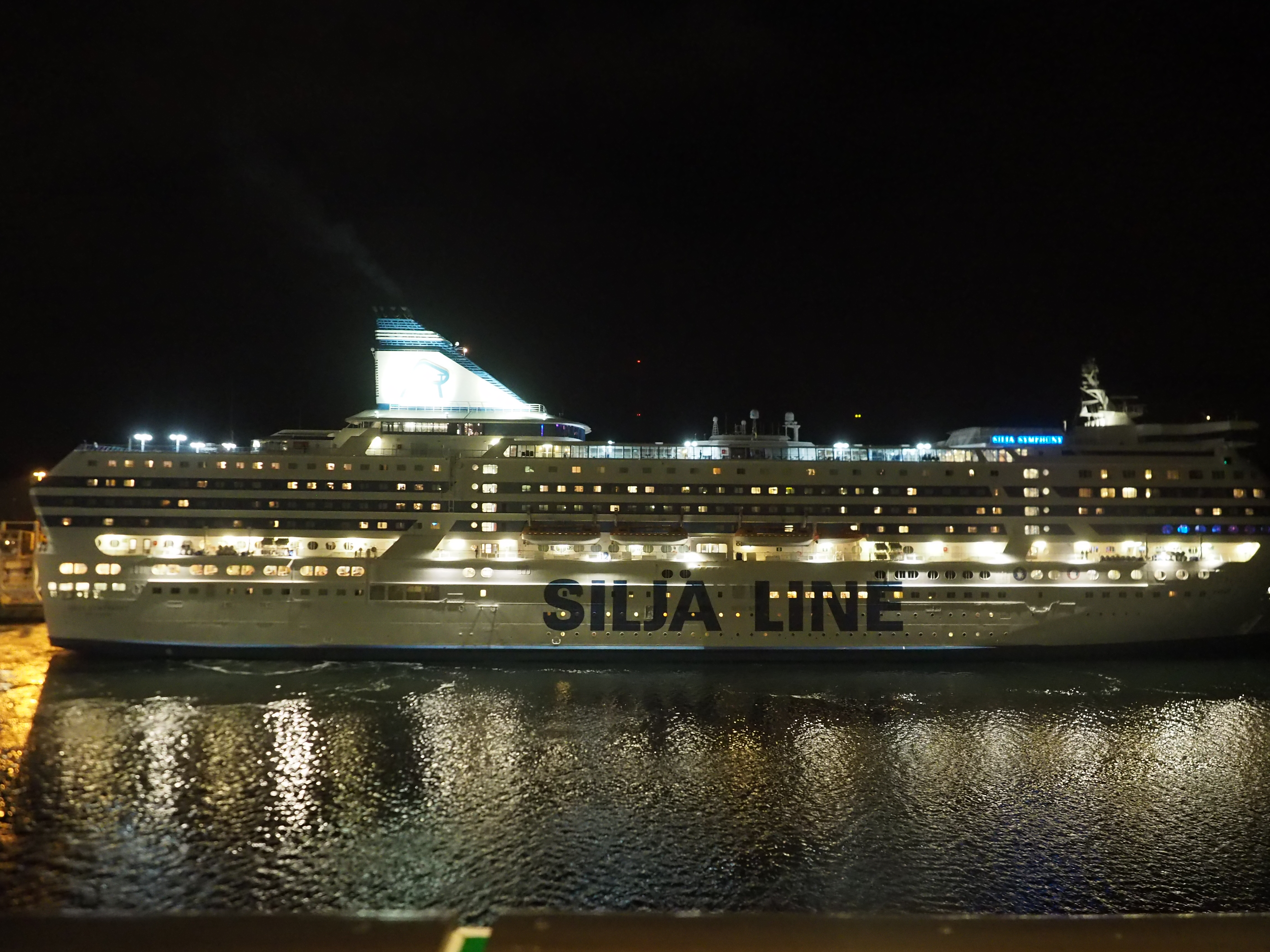 Silja Symphony departing from Mariehamn, Åland, Finland, in late evening. Photographed from Viking Mariella as the ships passed each other by.